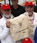 Transfering the Vintage Flag to AUT